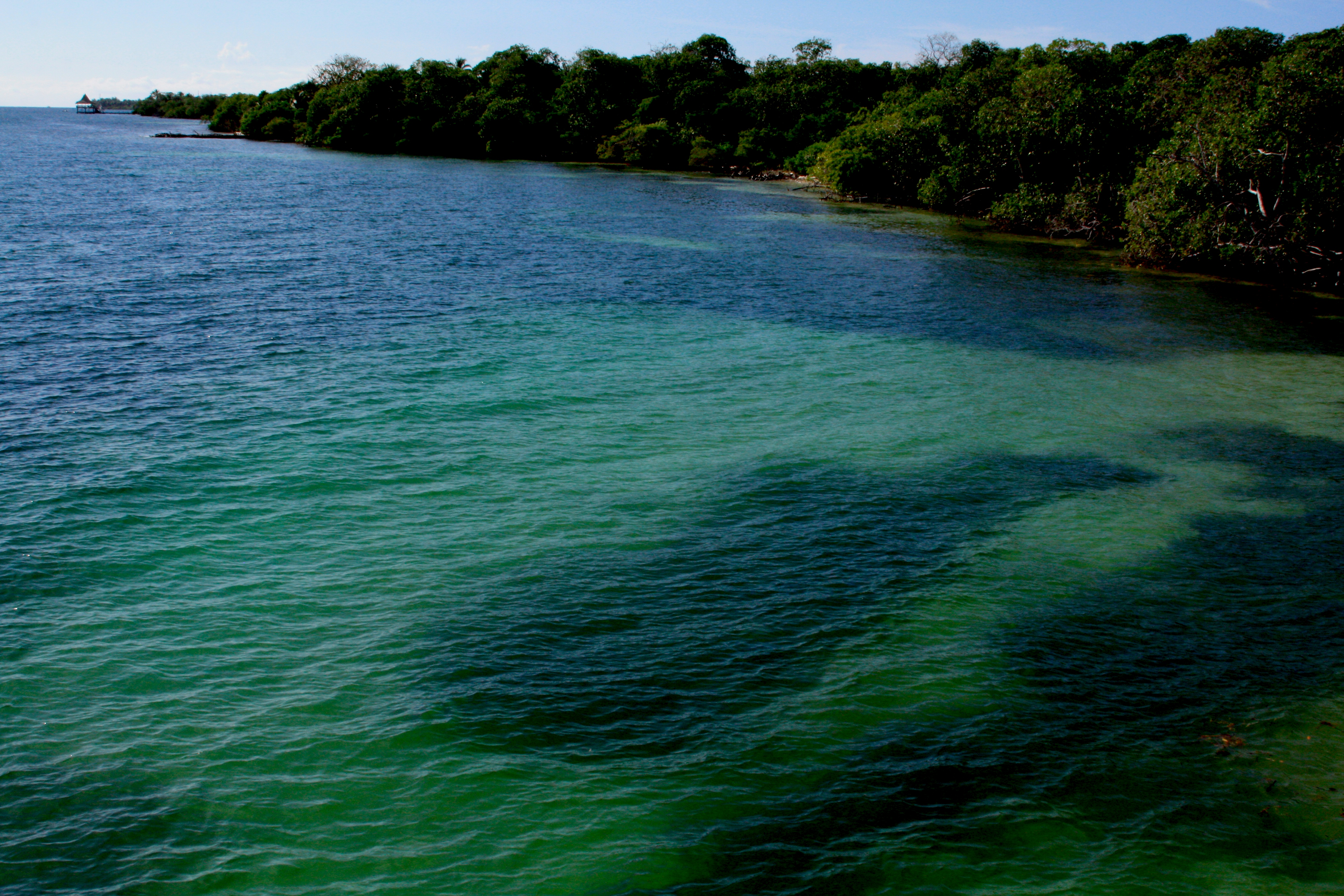 isla tintipan en el caribe colombiano